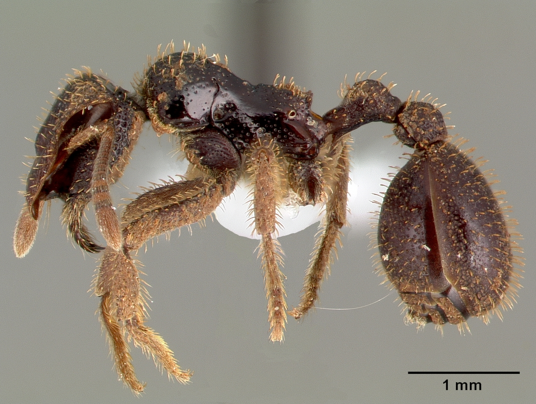 Profile view of ant Stegomyrmex vizottoi specimen casent0006164.